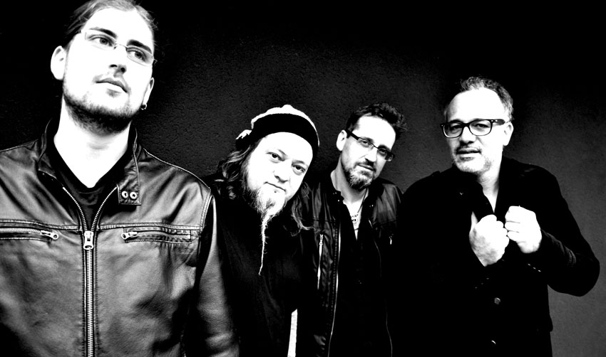 Photo officielle du groupe YEALLOW